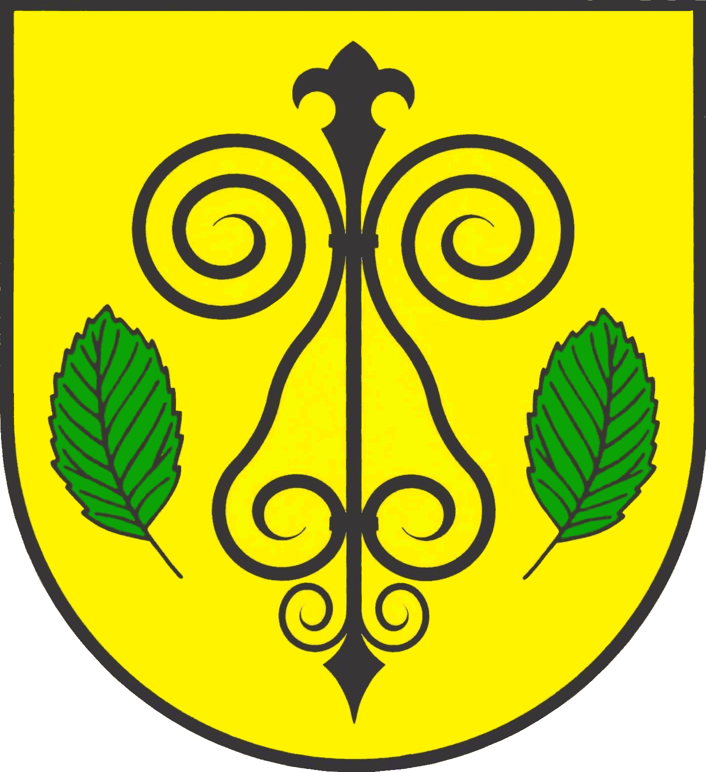 Coat of arms of the municipality Langstedt in Schleswig-Holstein, Germany.